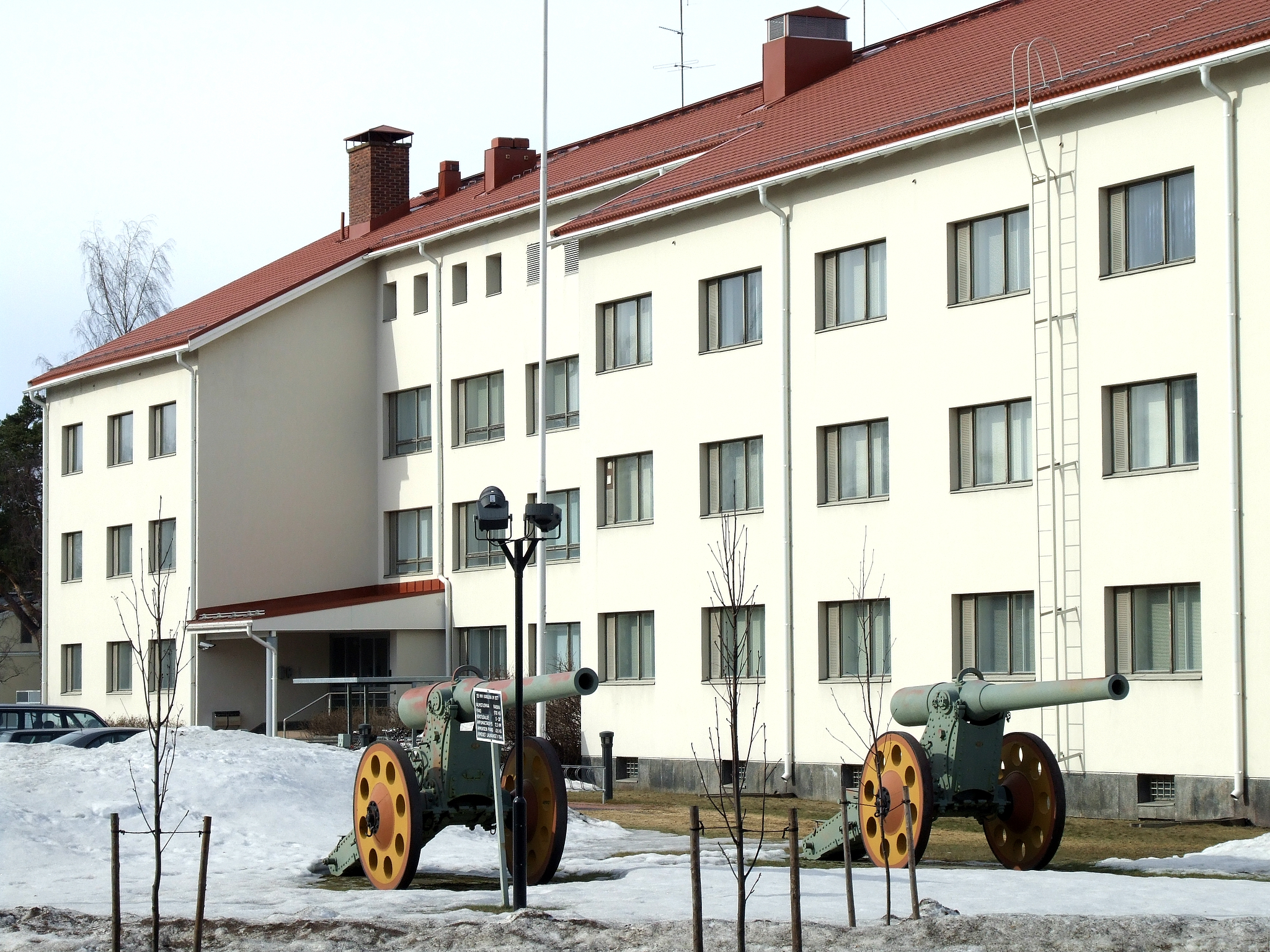 The Northern Command Headquarters of the Finnish Defense Forces in Oulu, Finland.